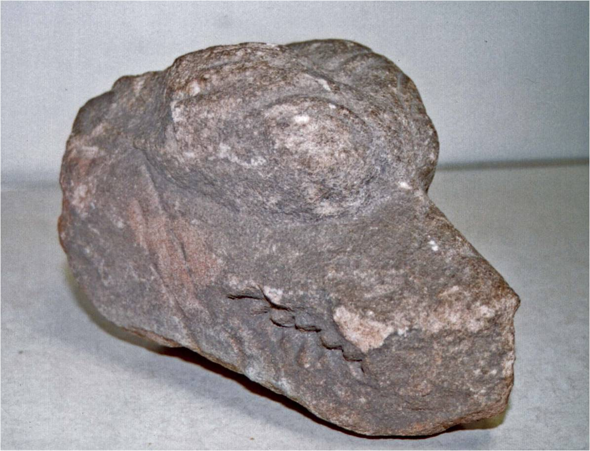 Medieval beast-head discovered in 1956 by Philip Rahtz at King John's Palace, Nottinghamshire